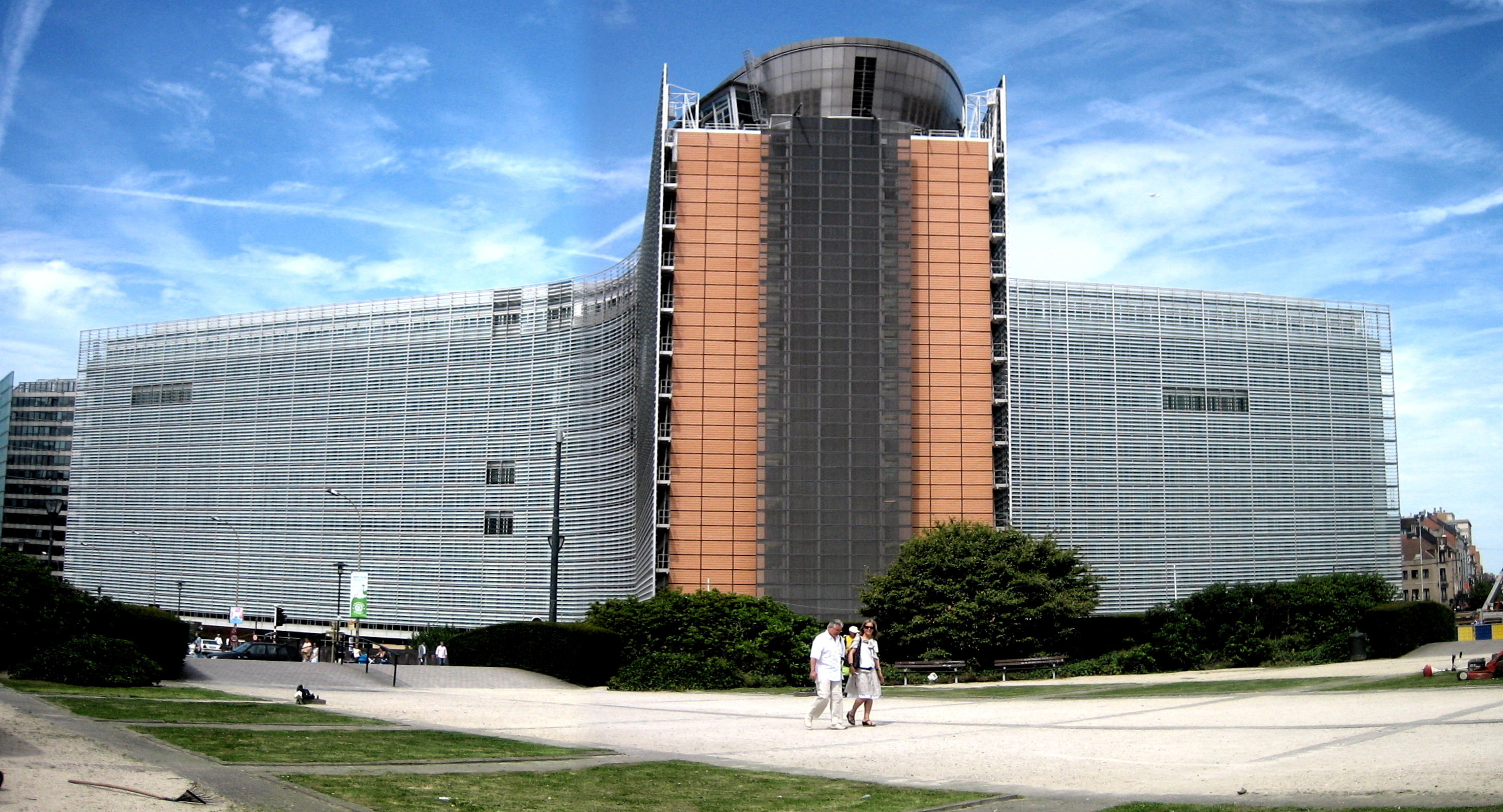 View of Schuman Roundabout